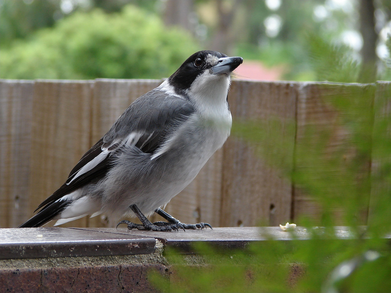 The bird of the same family as Magpies and Currawongs ( Cracticidae), but smaller. Butcherbirds have absolutely glorious voice - deep mellow piping, different notes, includes mimicry. We like to be waken up by their song in the morning, and they like to visit us for a piece of meat.